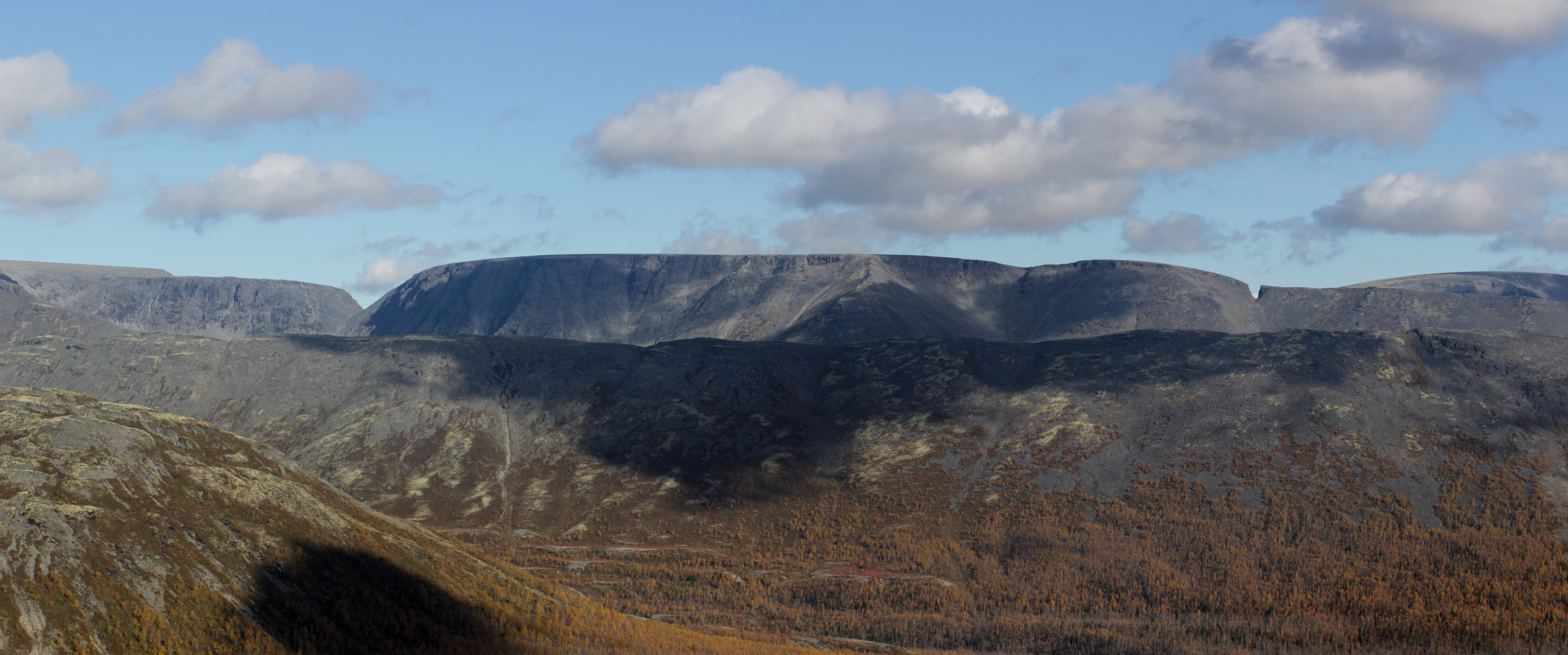 Kukisvumchorr mountain. The flat top of the mountain is due to glacier activity. The mountain is composed of nepheline syenites, rich in rare minerals, for example, kukisvumite, astrophyllite, canasite, lorenzenite, eudialyte, catapleiite, labuntsovite (mineral group), delhayelite etc.